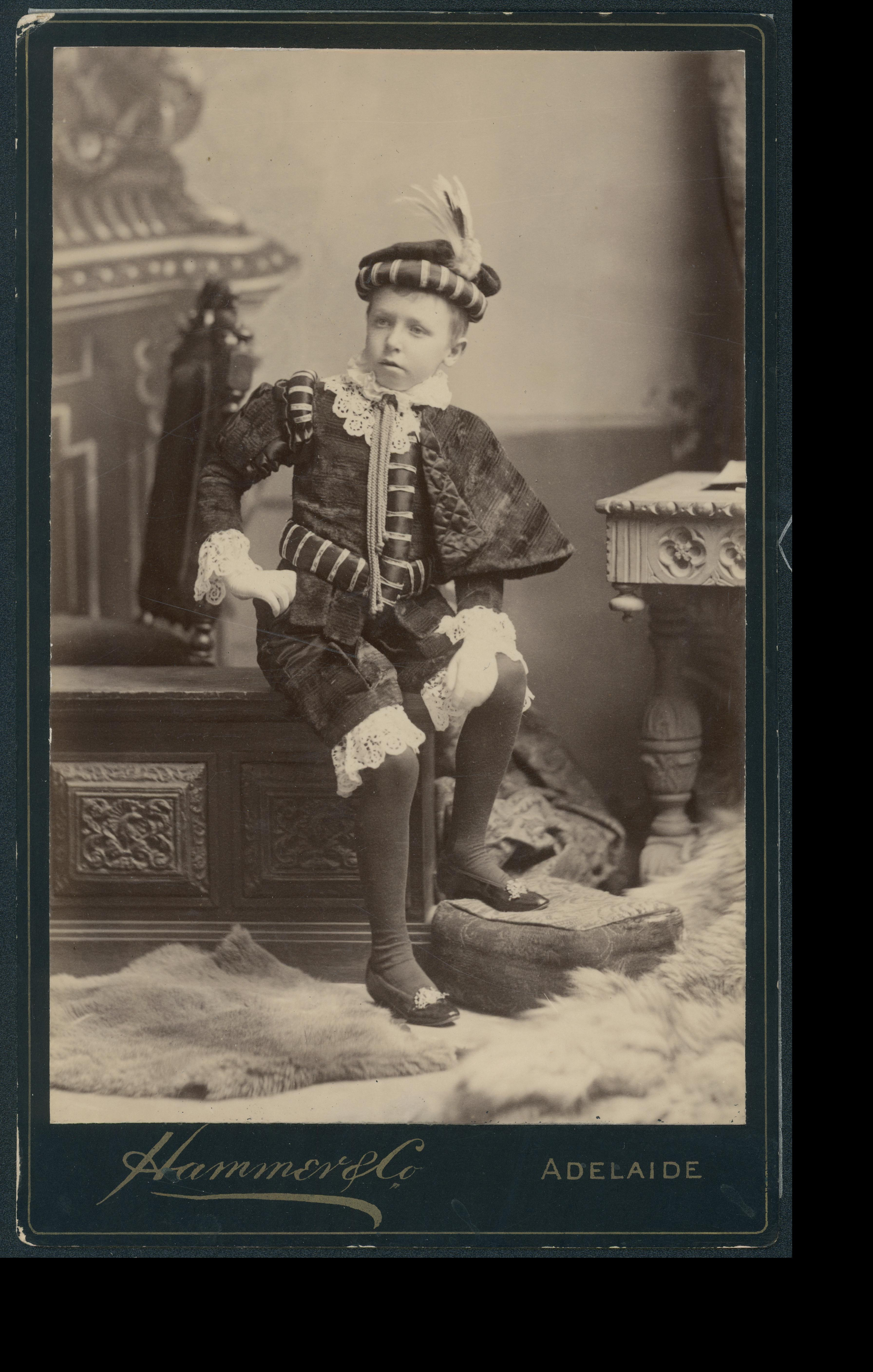 Hugh T. Bonython aged 8 years old, dressed as Earl of Leicester